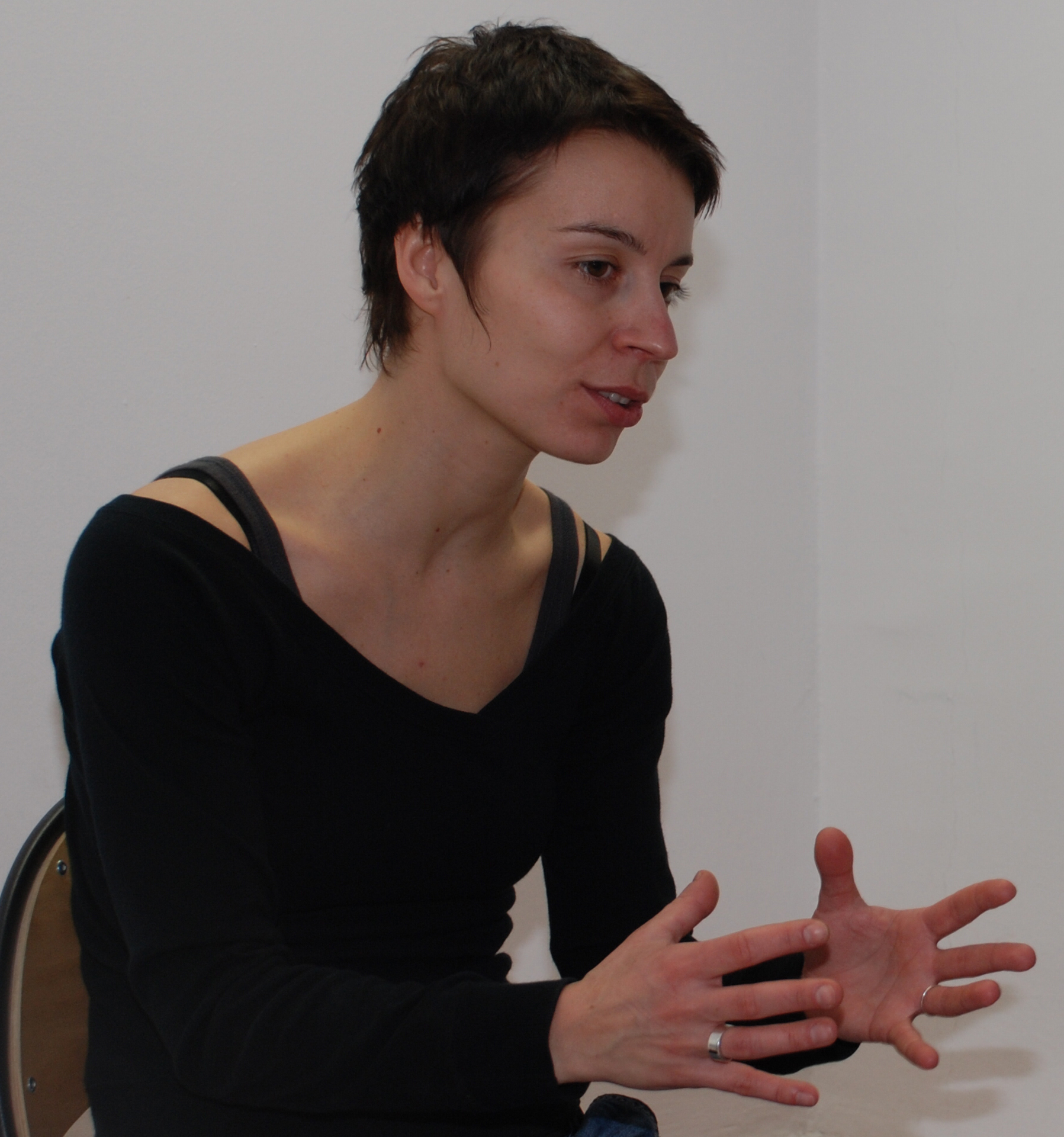 Magda Mleczak, a Polish cabaret artist, during an interview for Wikinews at the 2007 Festival of Cabaret in Zielona Góra.